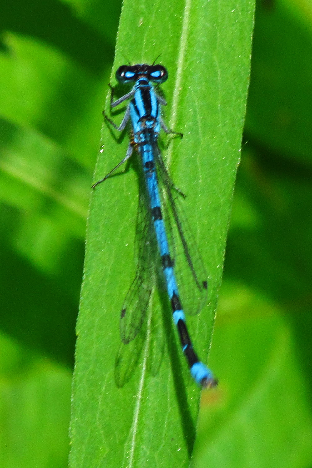 Northern Bluet (Enallagma annexum), male, Ottawa, Ontario, Canada